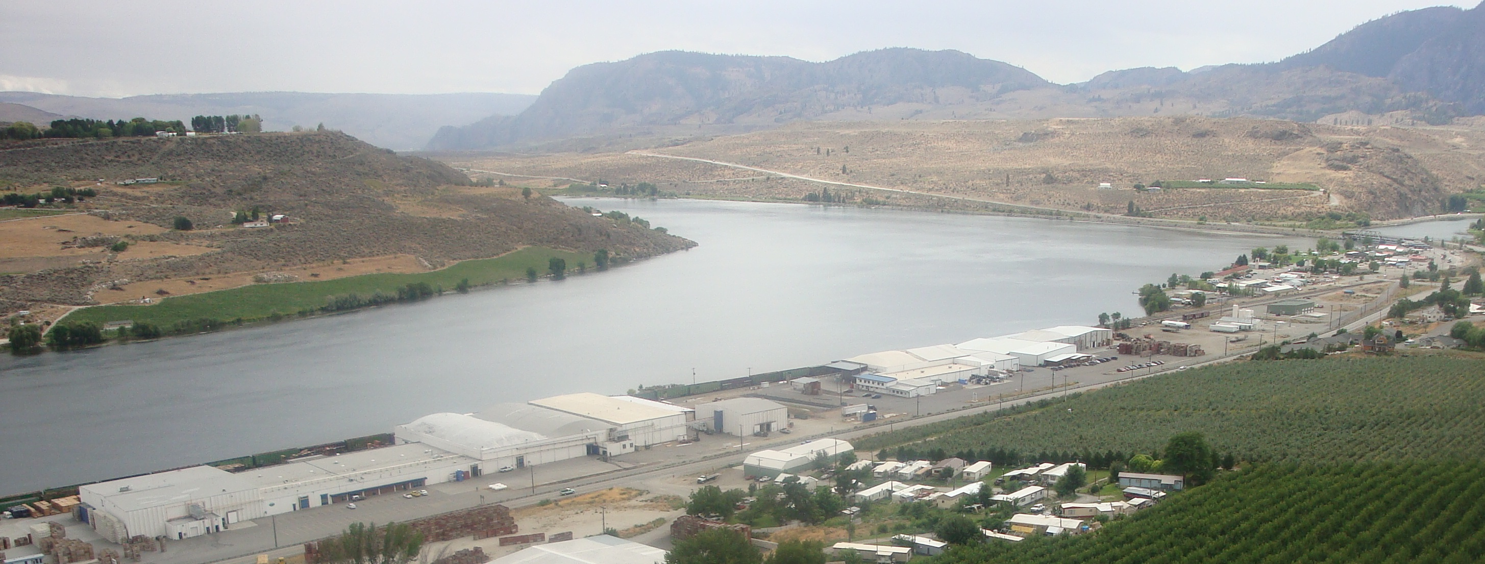 Lake Pateros at Pateros, Washington, USA